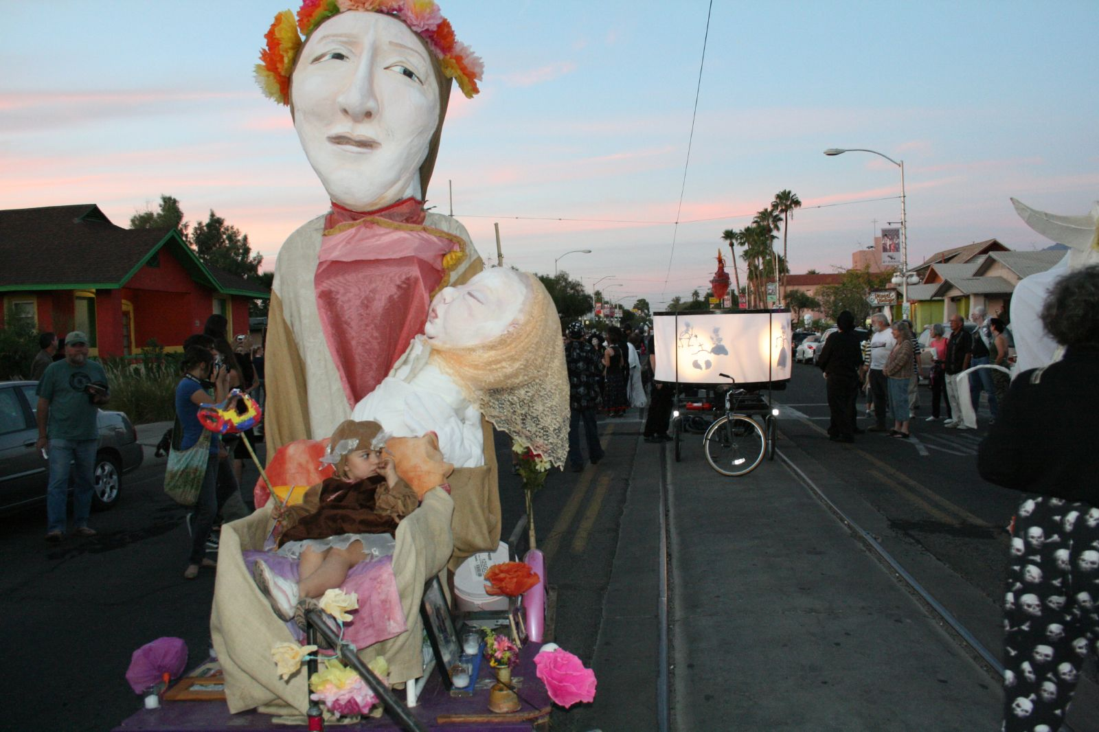 All Souls Procession in Tucson, Arizona.